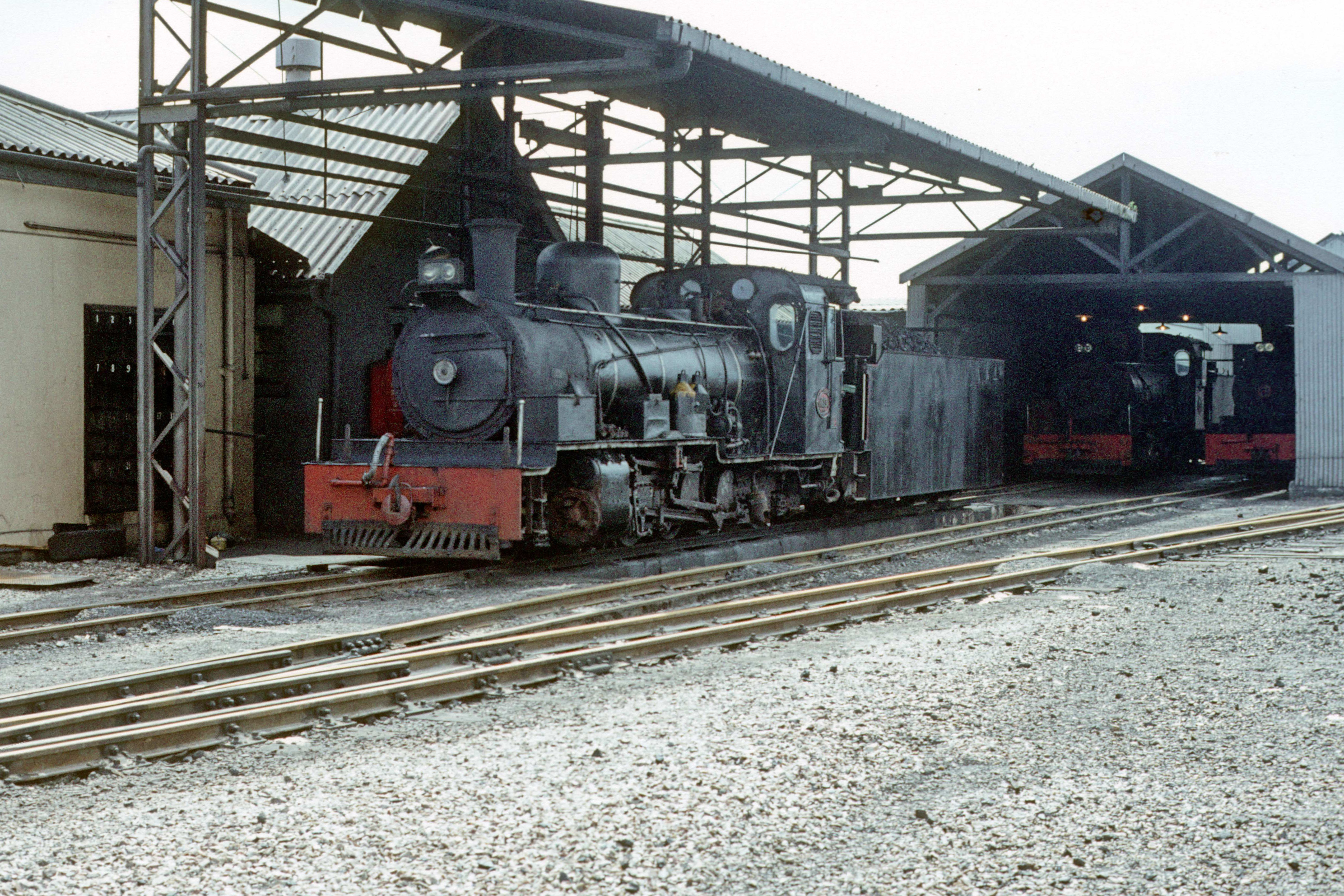 SAR NG 15 Locomotives at Humewood Depot. Photo Nicole Huhardeaux-Dufrasne